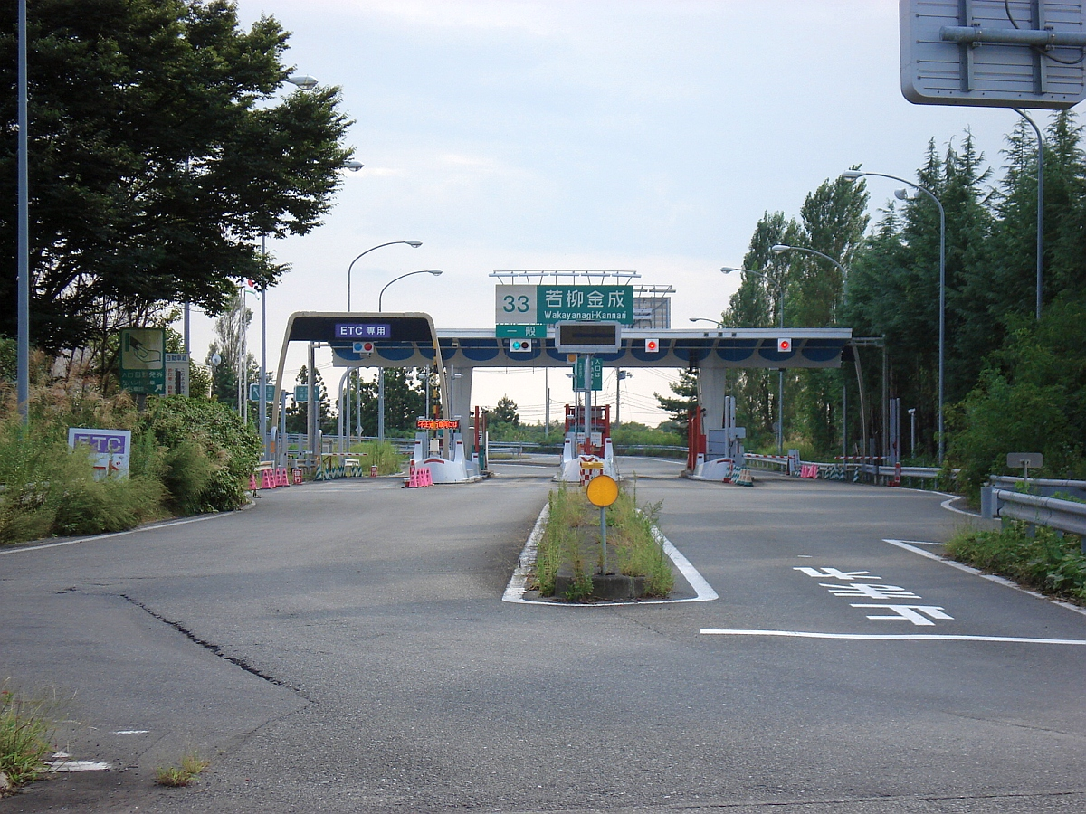 This Interchange, Wakayanagi-Kannari Interchange, is on Tohoku Expressway, in Kurihara city, Miyagi Prefecture, Japan.